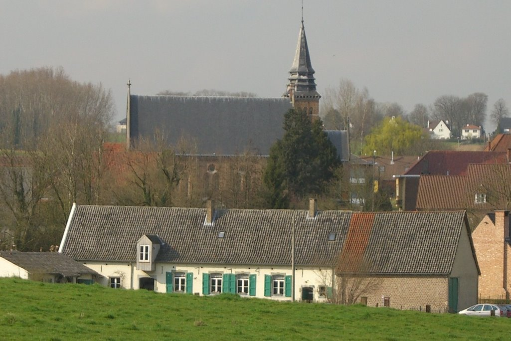 De watermolen van Pede (Pedemolen) ligt op de rand tussen grootstad Brussel en het Pajottenland